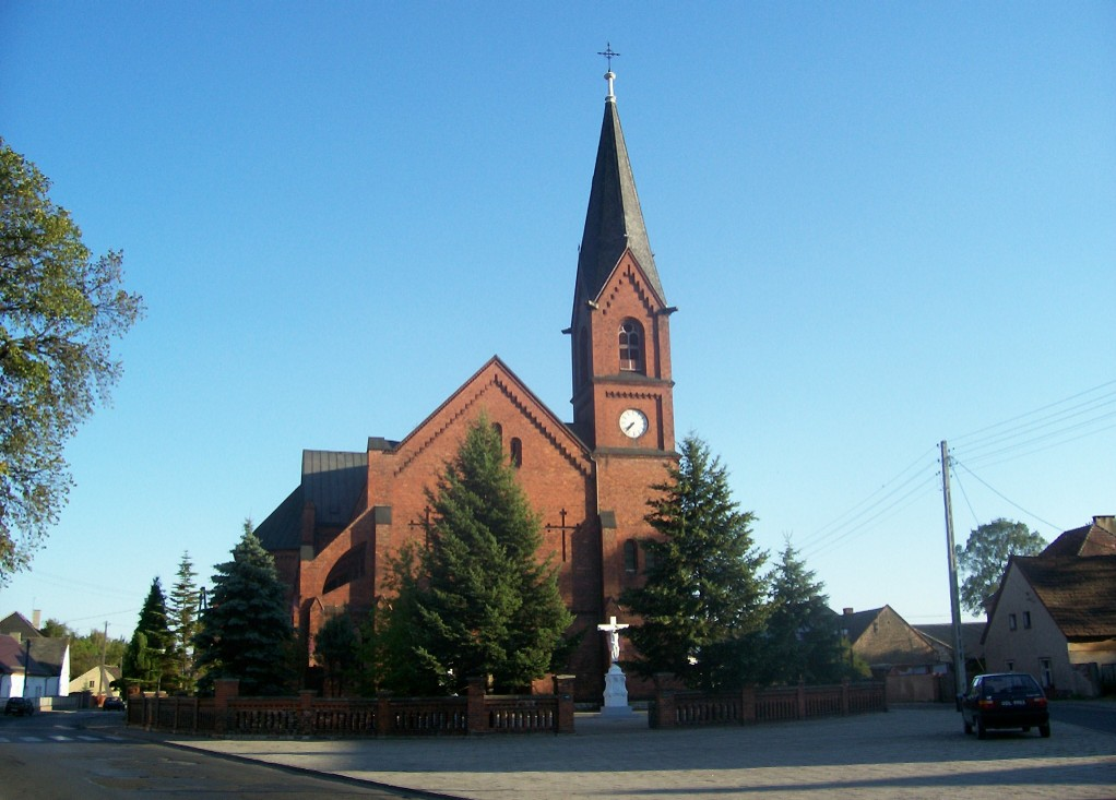 The church of Saint Catherine of Alexandria in Opole-Groszowice